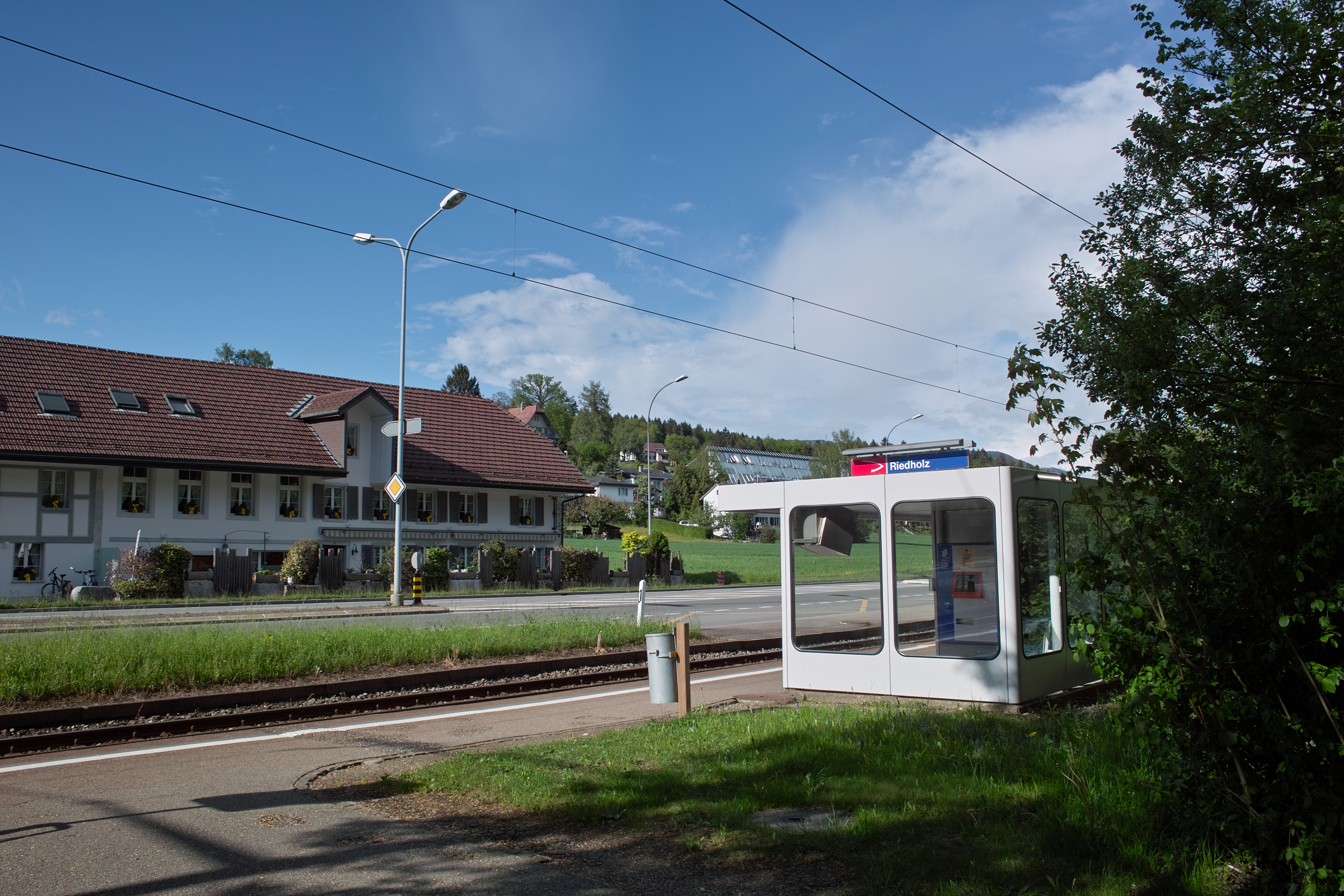 Railway station of Riedholz, canton of Solothurn, Switzerland.